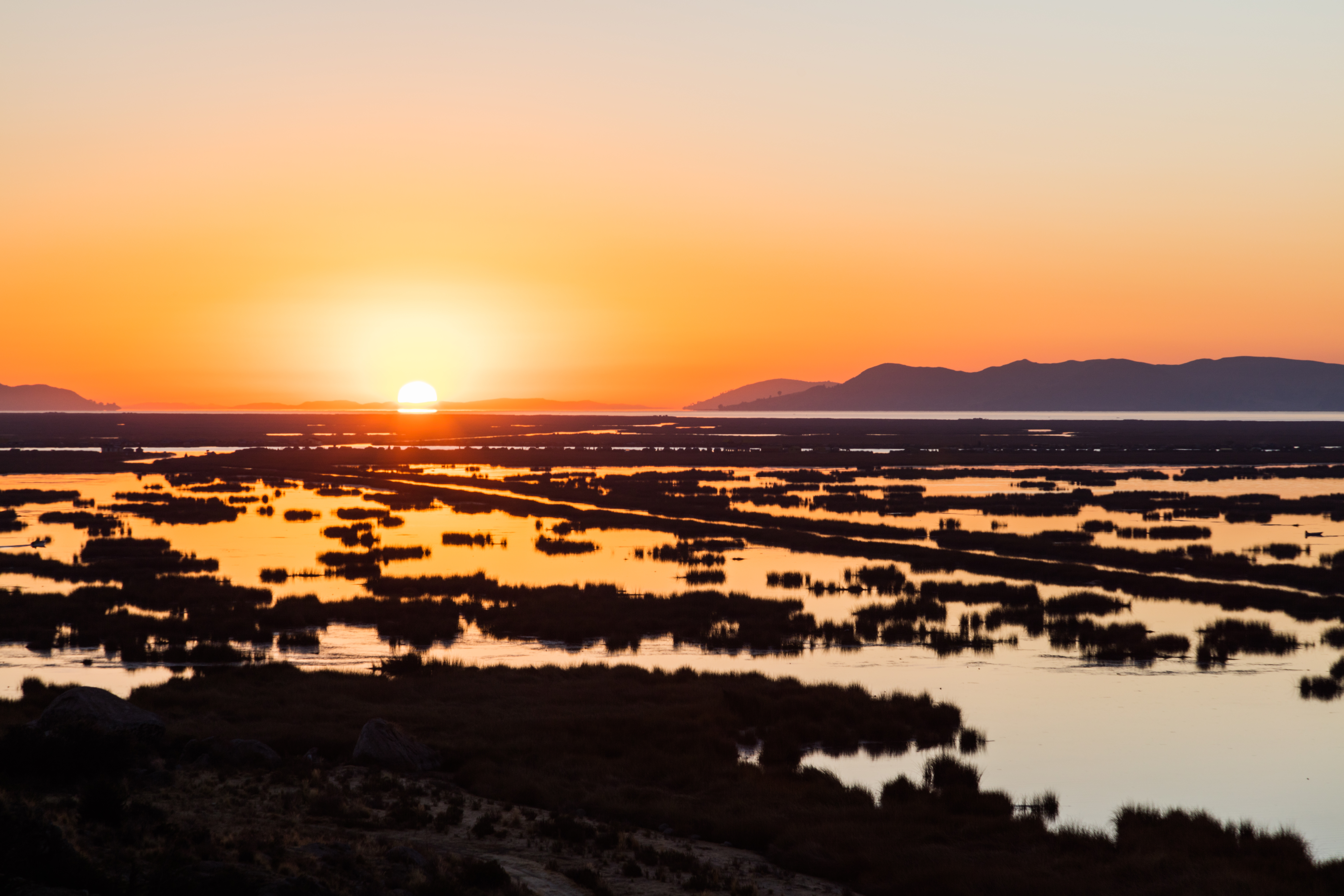 Sunrise over the Titicaca lake, Puno, Peru